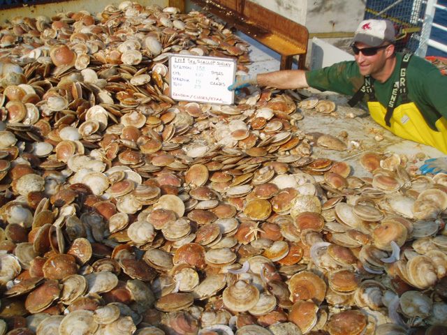 Scallop dredge catch (Atlantic sea scallop, Placopecten magellanicus) from a 2008 Elephant Trunk survey on the deck of the research vessel Hugh Sharp